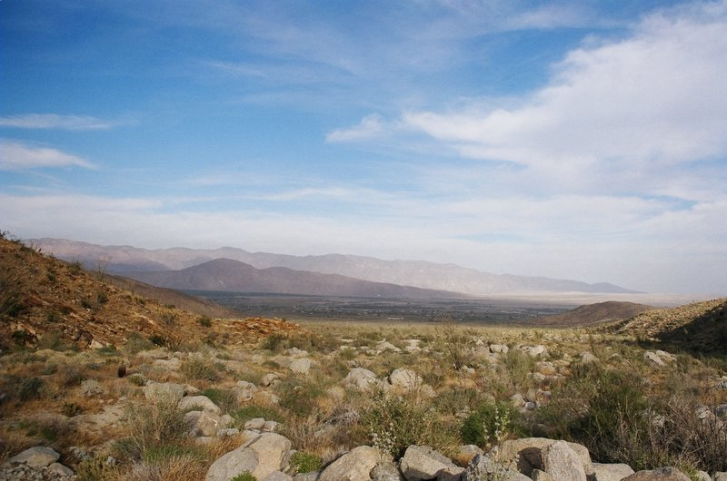 Vista of Anza Borrego desert in California. Author: Amar December 2005